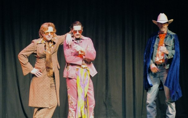 2 Headed Dog...presents Sashay!